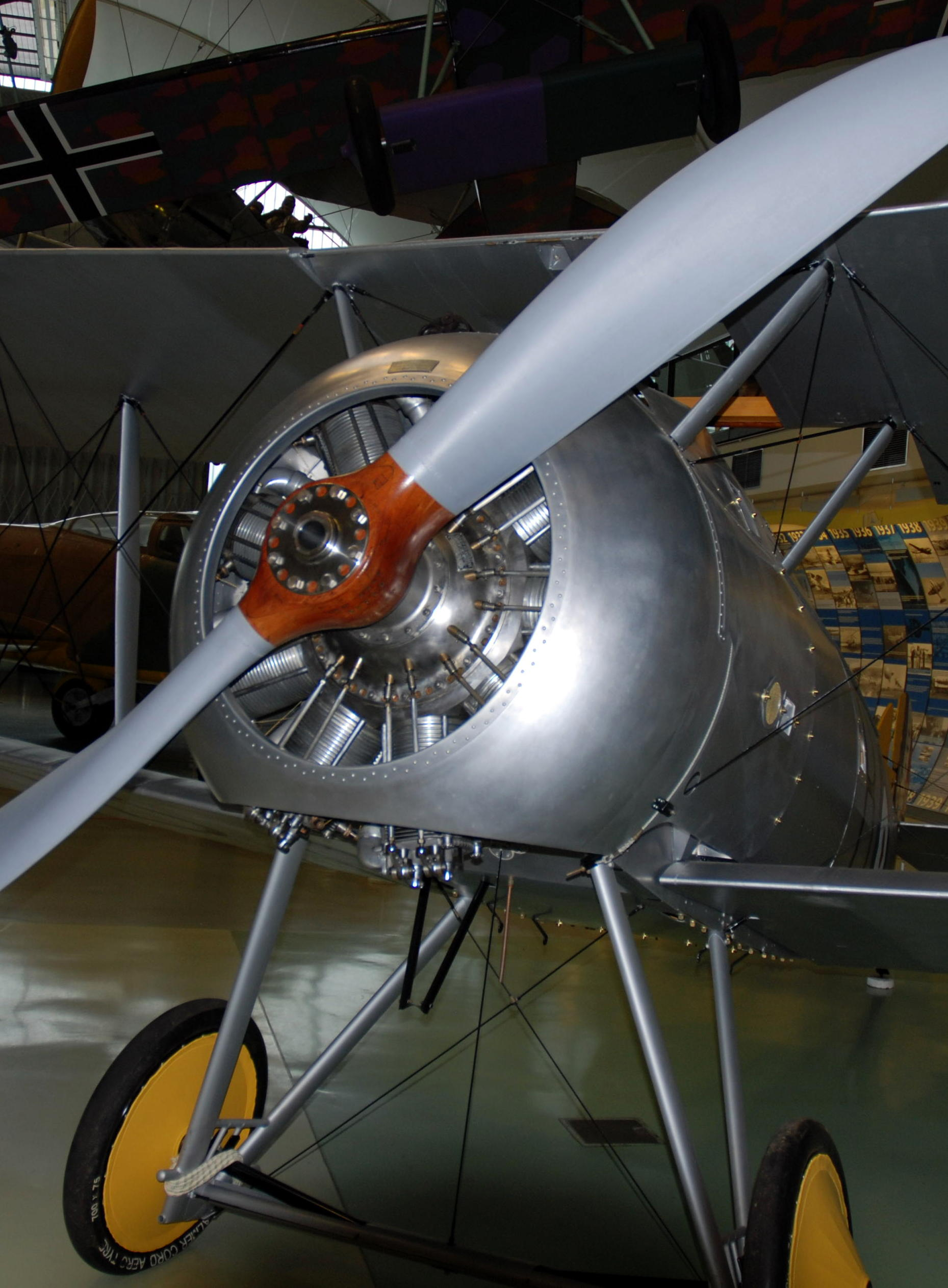 Photo ref; Nikon-D80-2013-DSC_1162 (Edited)